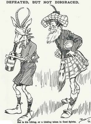 Cartoon of the Scottish win over the South Africans in their 1906 Rugby union match.